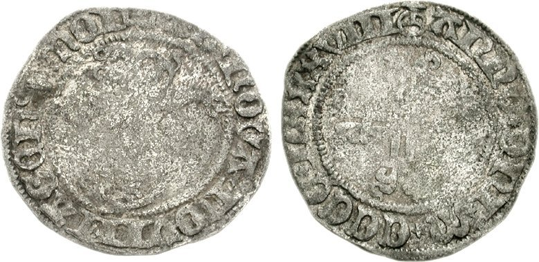 Low Countries, Nijmegen. AR Half Stuiver (1.31 g, 1h). Dated 1488. Lion walking left, holding coat of arms of Nijmegen Triple-stranded cross fleurée. Chijs p. 264; Stephanik -; Levinson III-199; Frey 311. Near VF, toned. Very rare.